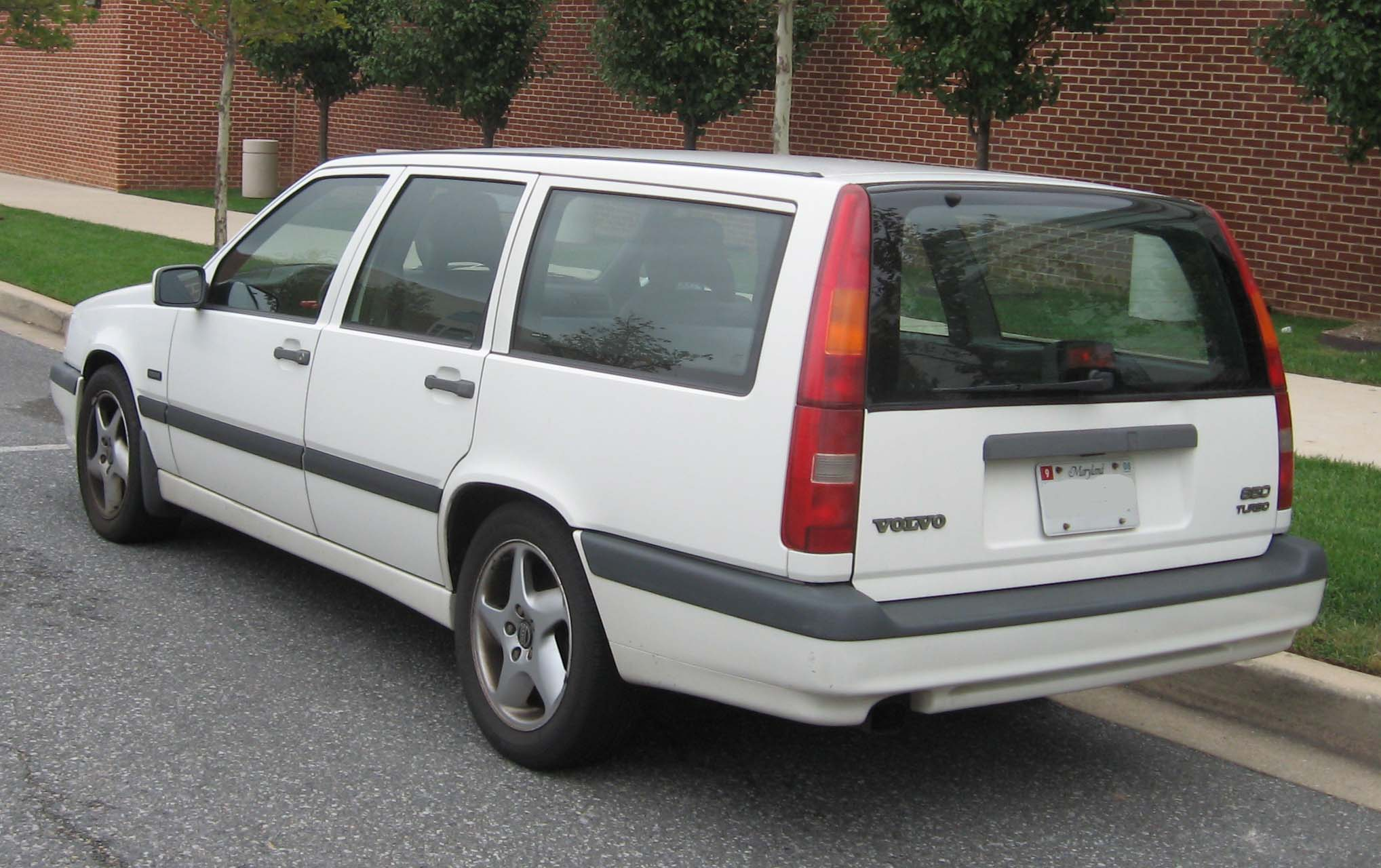 Volvo 850 photographed in College Park, Maryland, USA.